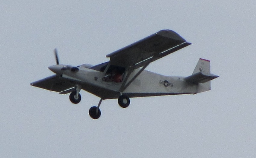 CH701 Turboprop